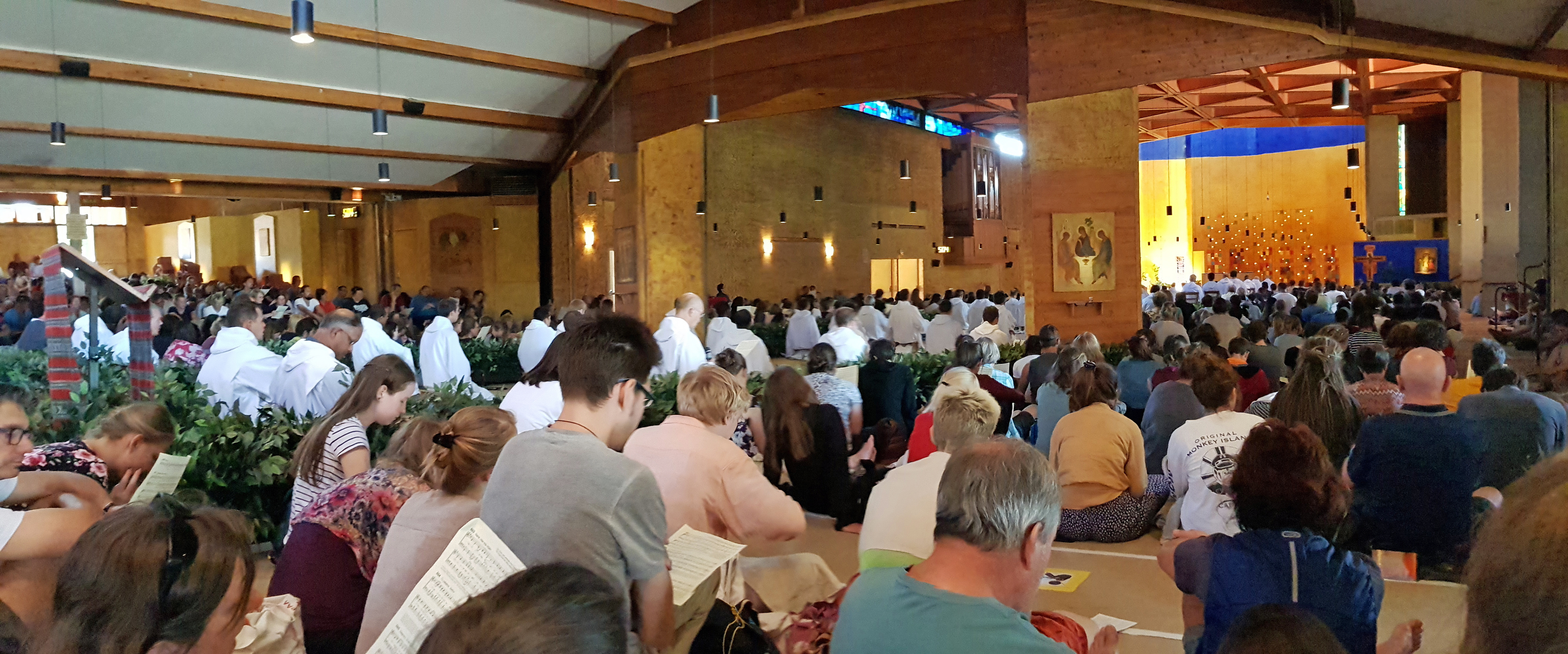 Kirche der Versöhnung